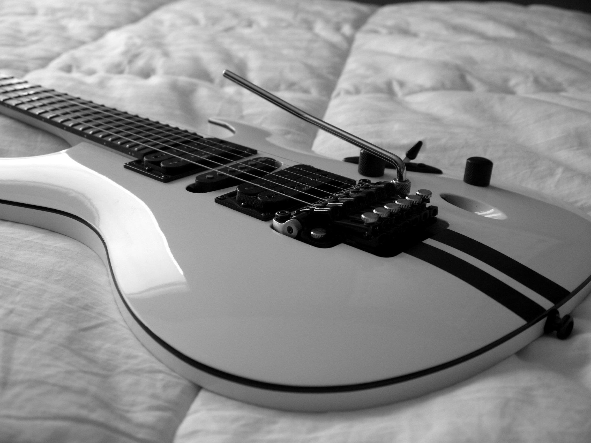 This is a grayscale image of a white Ibanez S570B. The guitar has been slightly customized with the two black stripes.